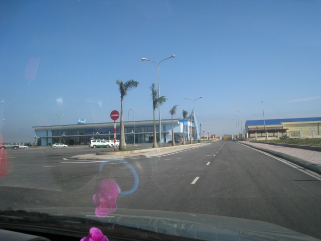 Dong Hoi Airport, Vietnam